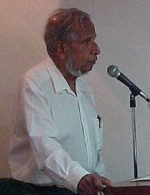 Joshua Benjamin Jeyaretnam speaking at a "Night of Solidarity" forum against capital punishment in Singapore.